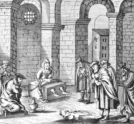 Shabbatai Tzvi as a prisoner of the Turks in Abydos.